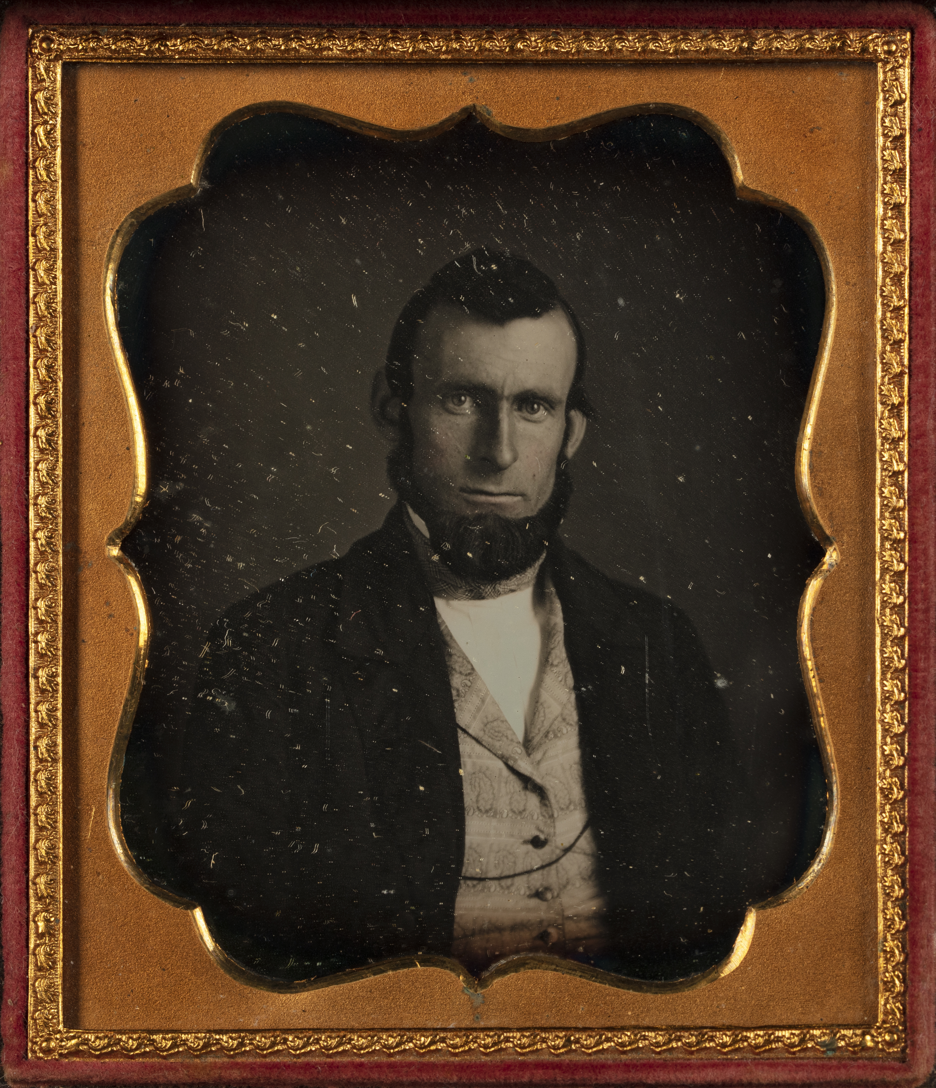 Allen Benjamin Wilson circa 1861